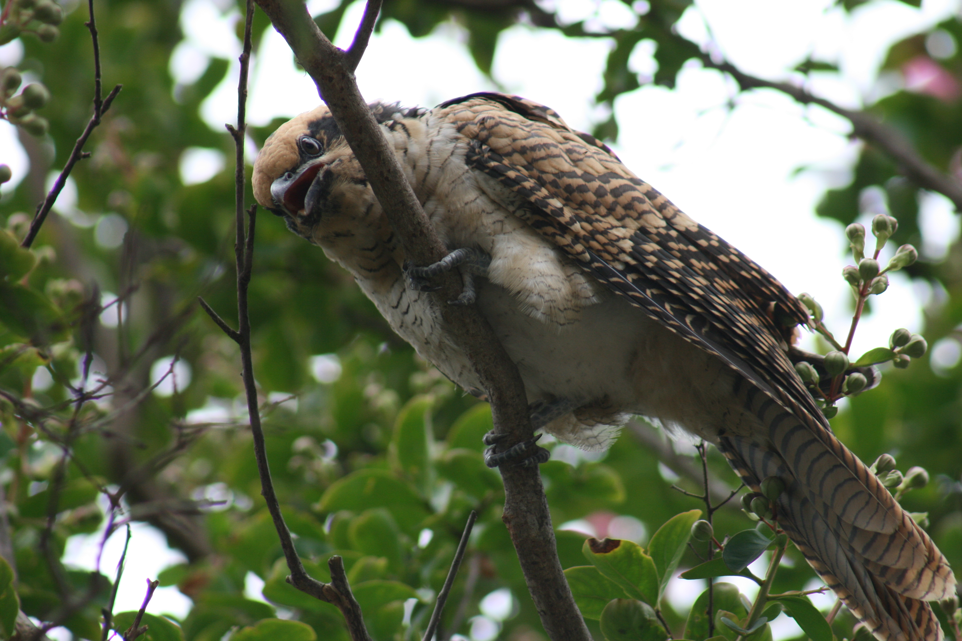 Immature Australian Koel. Foster parent (Red WAttlebird) was nearby. Location - Marrickville LGA sydney, NSW